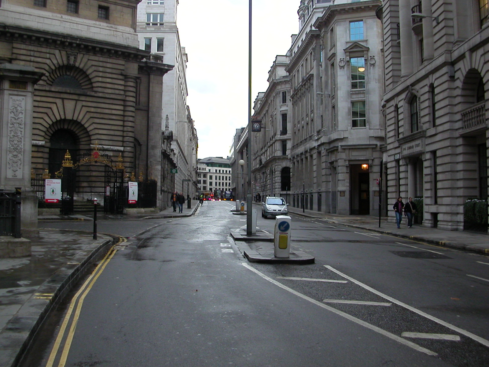 North end of King William Street (London) looking towards Monument tube station. Photographed November 25, 2006.